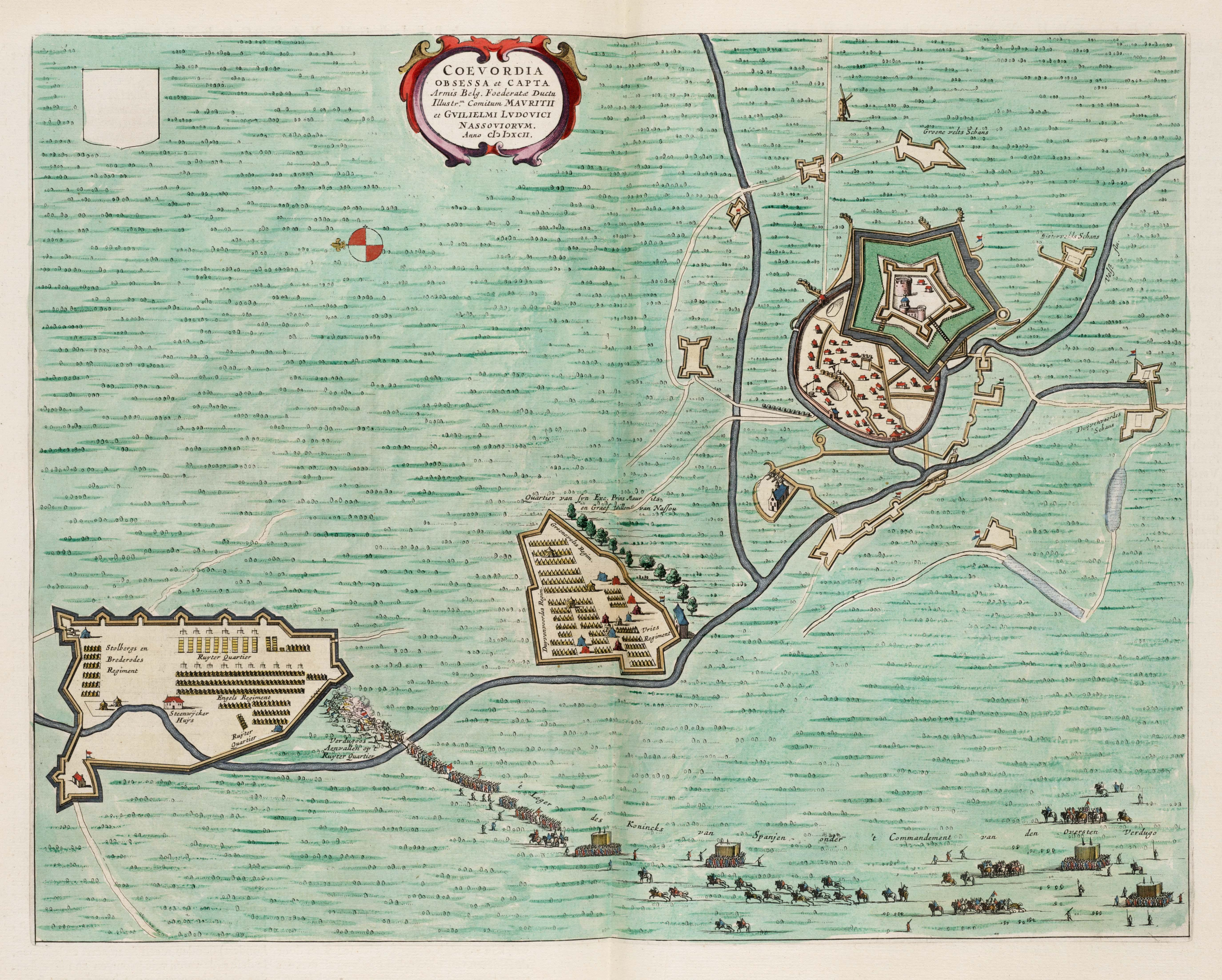 Siege and capture of Coevorden by Maurice and Willem Lodewijk of Nassau.